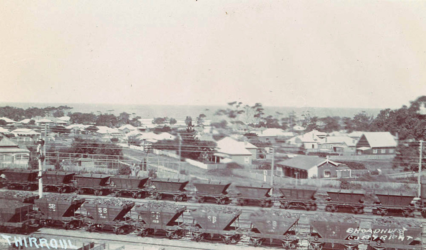 Thirroul [including coal train]